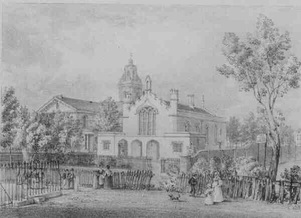 Hackney Grammar school, c. 1835, with St John at Hackney in the background. Drawn for Sutton Place. Source: Hackney archives